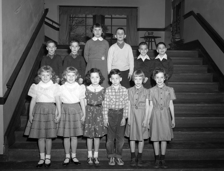 Title: William Fox School, twins and grads Creator: Adolph B. Rice Studio Date: January 21, 1957 Identifier: Rice Collection 1348BB Format: 1 negative, safety film, 4 x 5 in. Repository: Library of Virginia, Prints and Photographs, 800 E. Broad St., Richmond, VA, 23219, USA, :8881/R